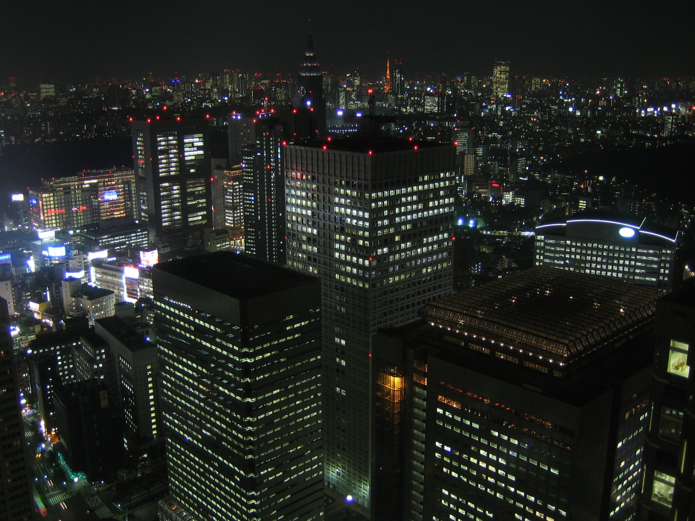 Tokyo at night. Tokyo Tower is on the horizon (in orange). The biggest building in the foreground (with red lights on top) is the KDDI Building, 165 meters tall. The building with the clock is the NTT DoCoMo Yoyogi Building.